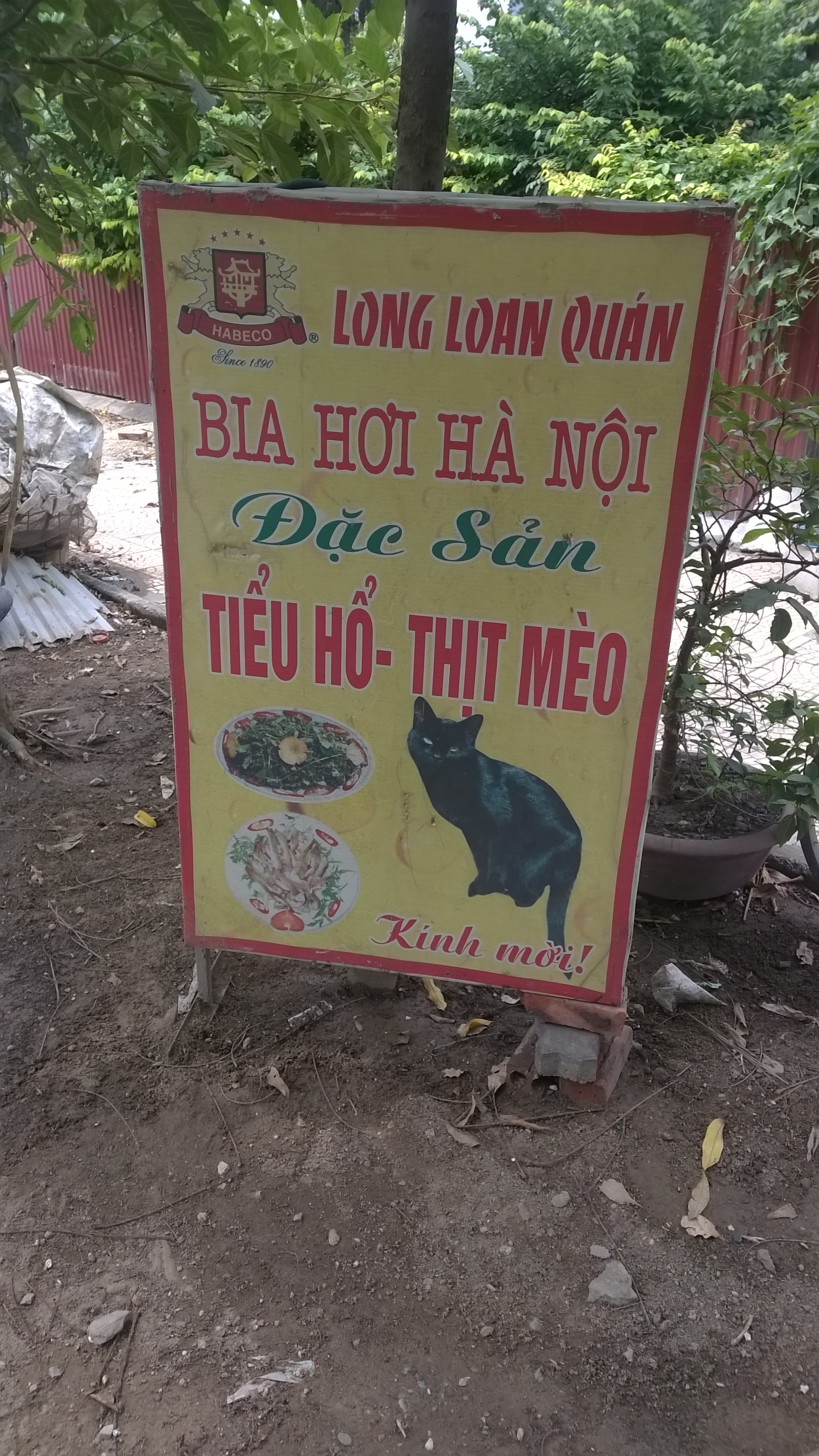 An image of a cat being advertised as a meal, it reads little tiger - cat dish from the Van Giang district in the Hung Yen province.